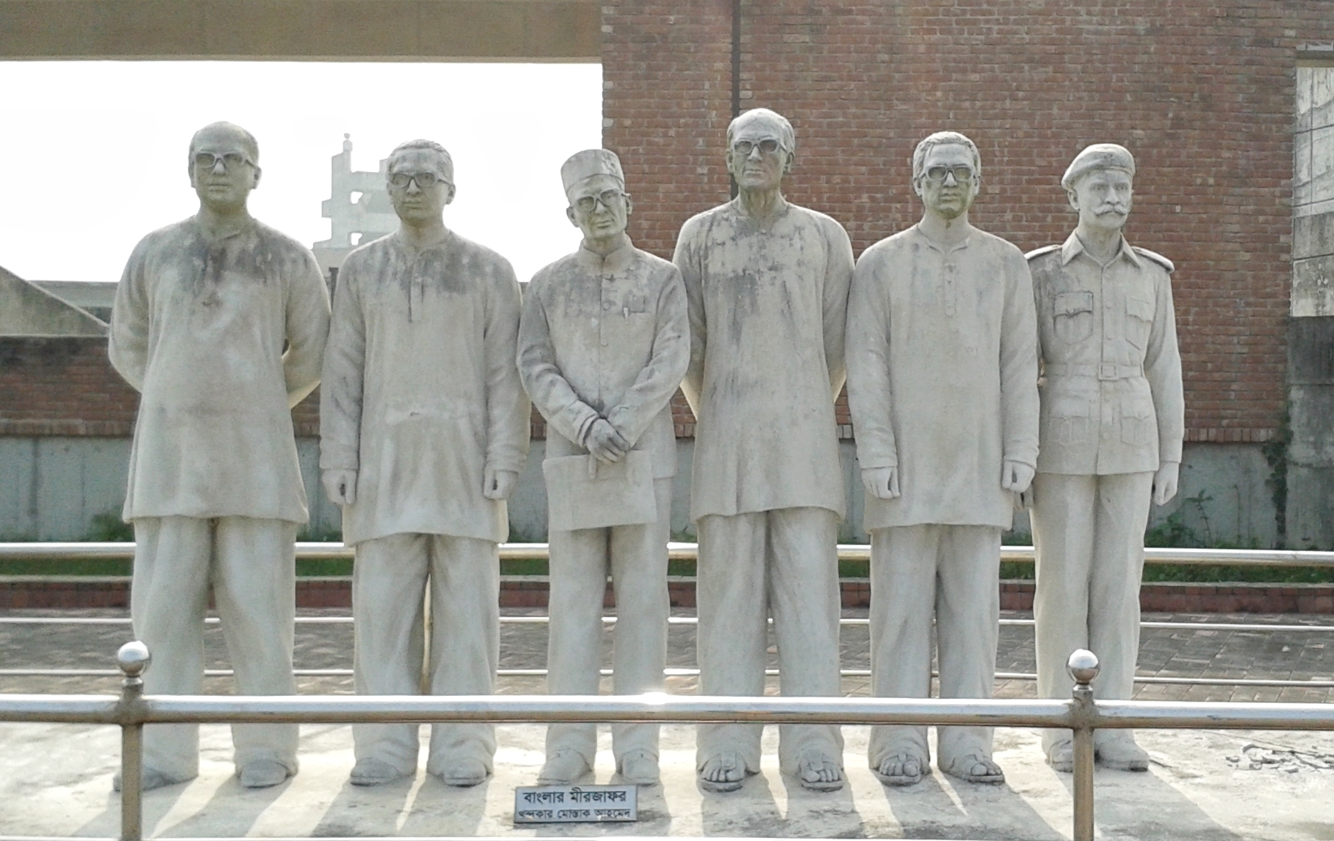 Sculpture of provitonal government of Bangladesh